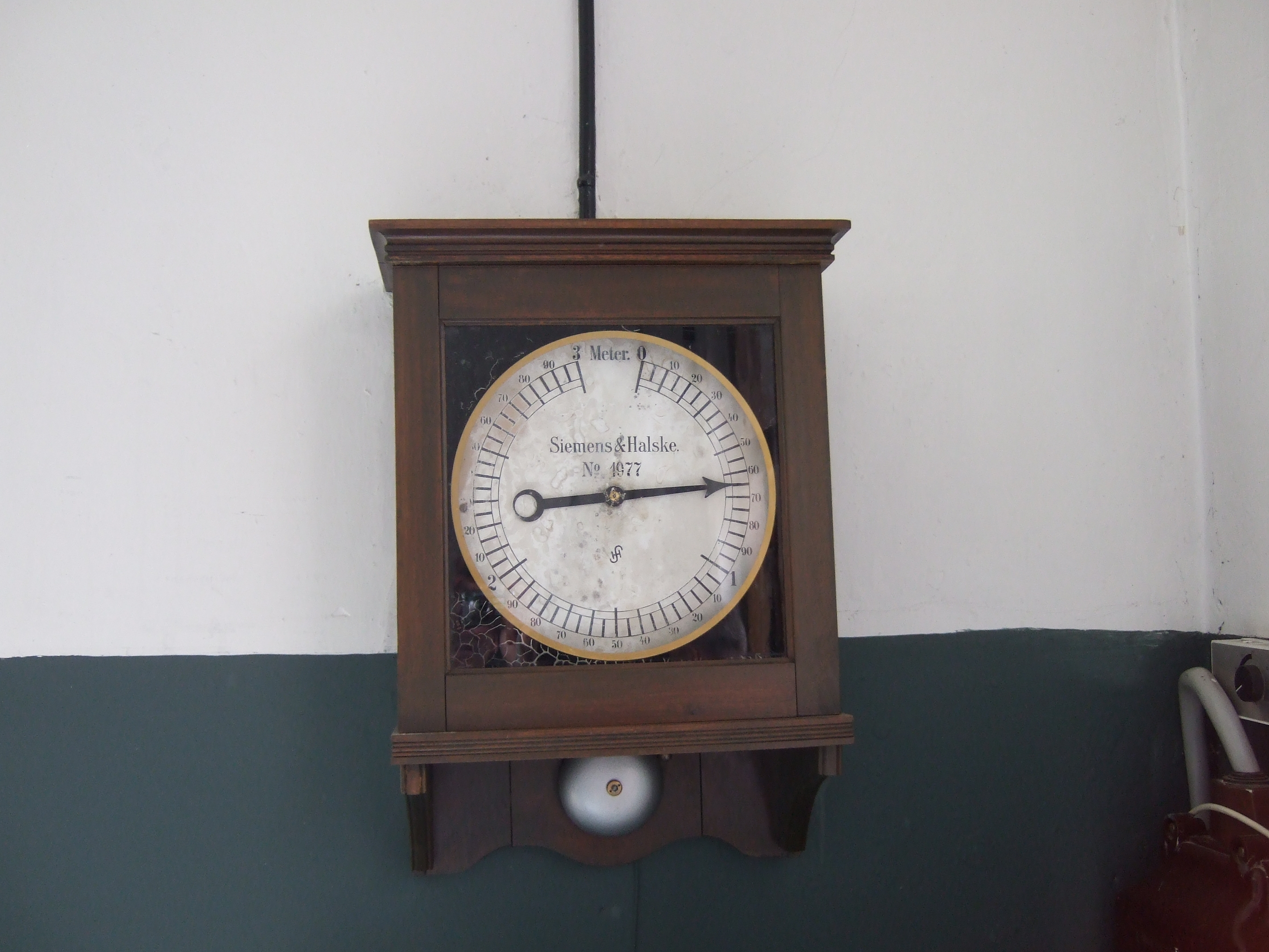 historical pump station Onstmettingen